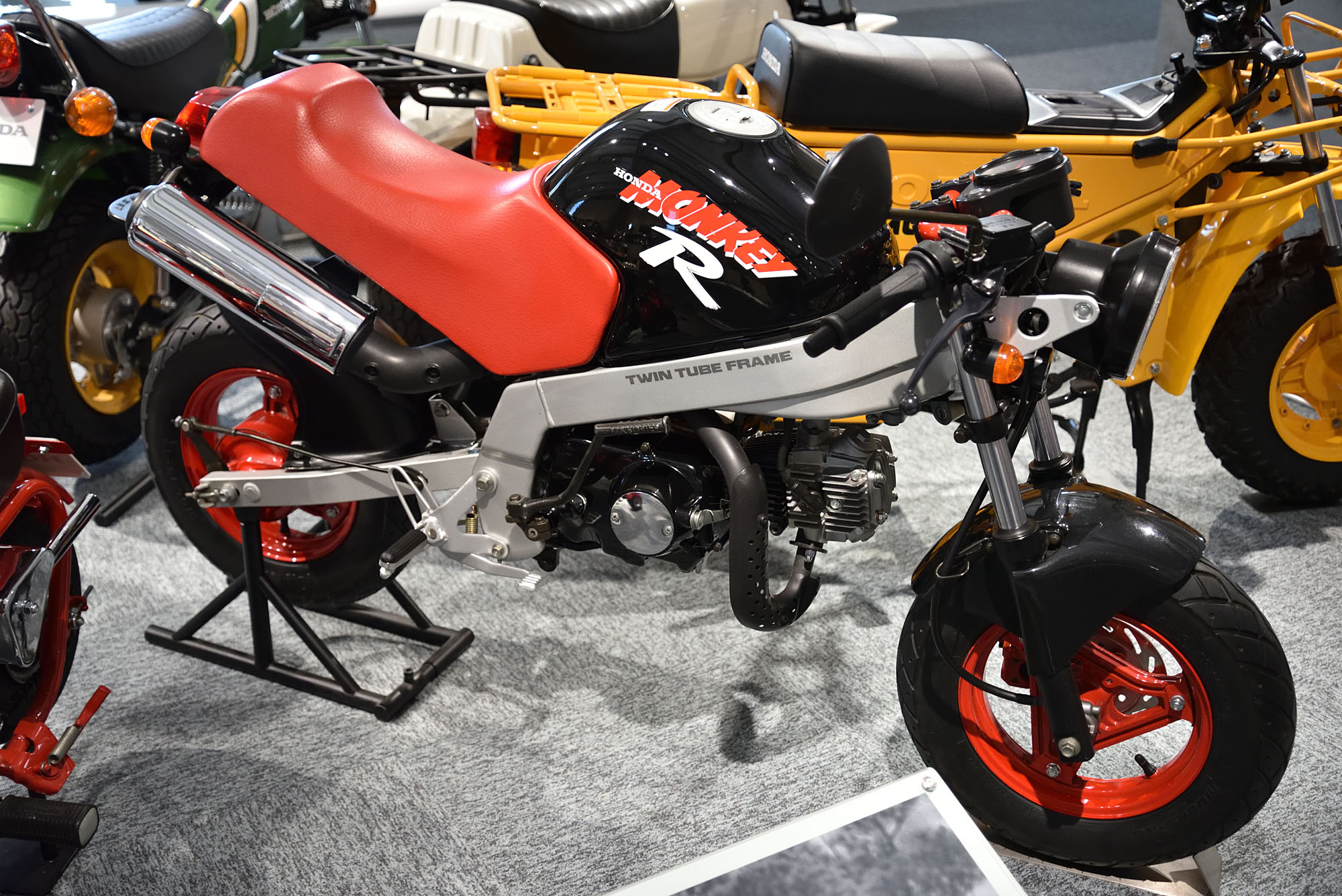 Honda Monkey R (1987)